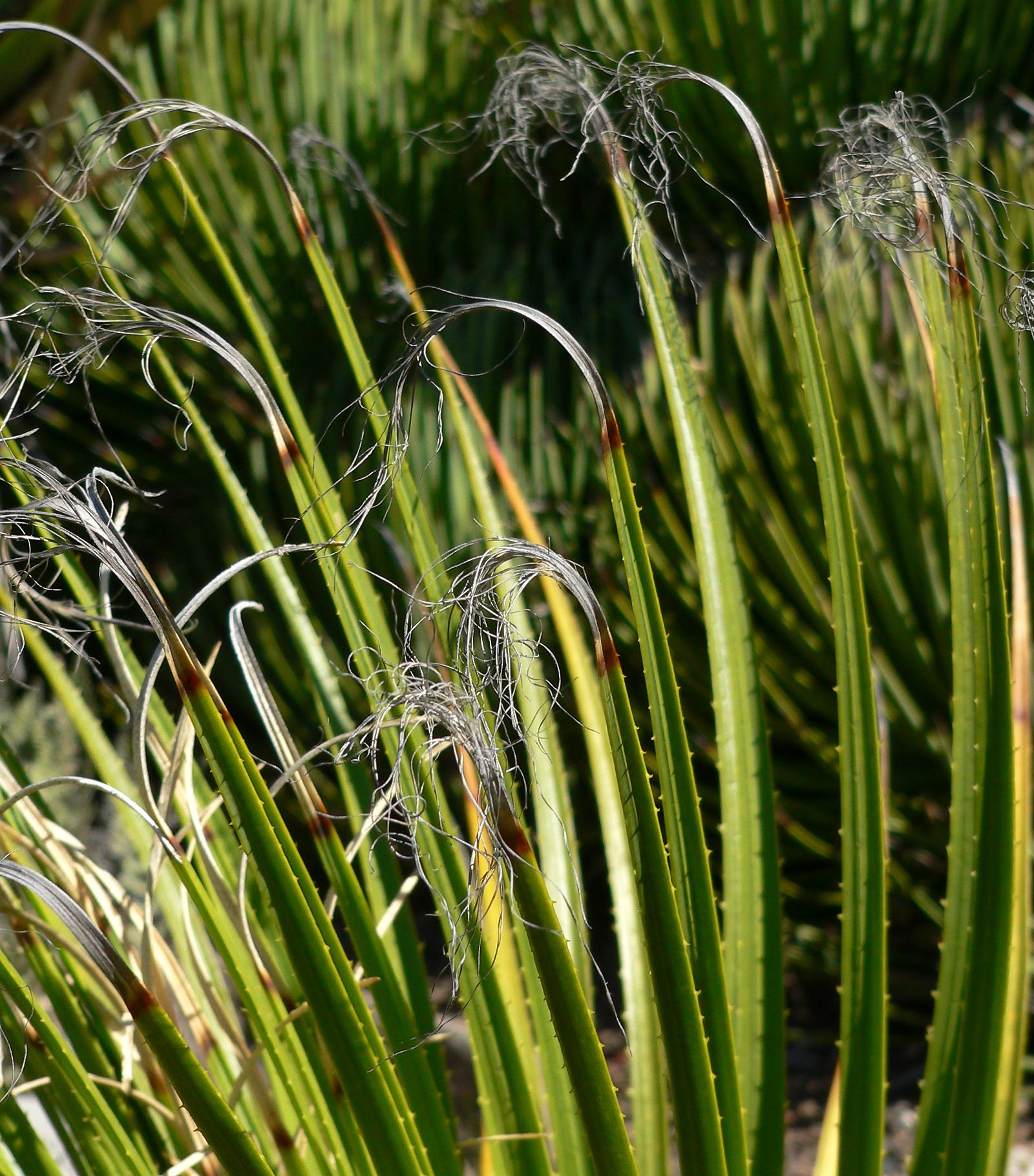 Dasylirion leiophyllum at the University of California Botanical Garden, Berkeley, California